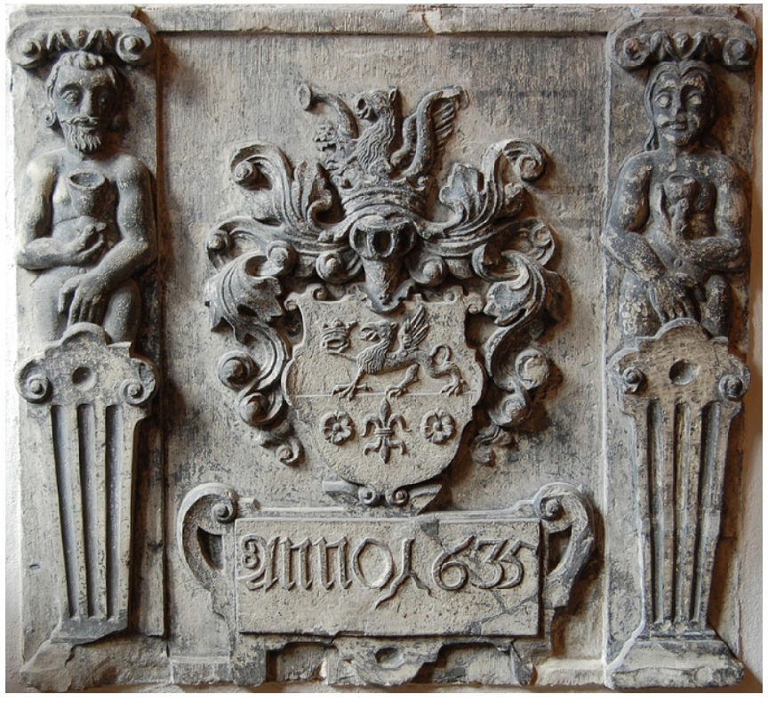 coat of arms of Burchardt Bélavary, 1635. Tallinn, Estonia.